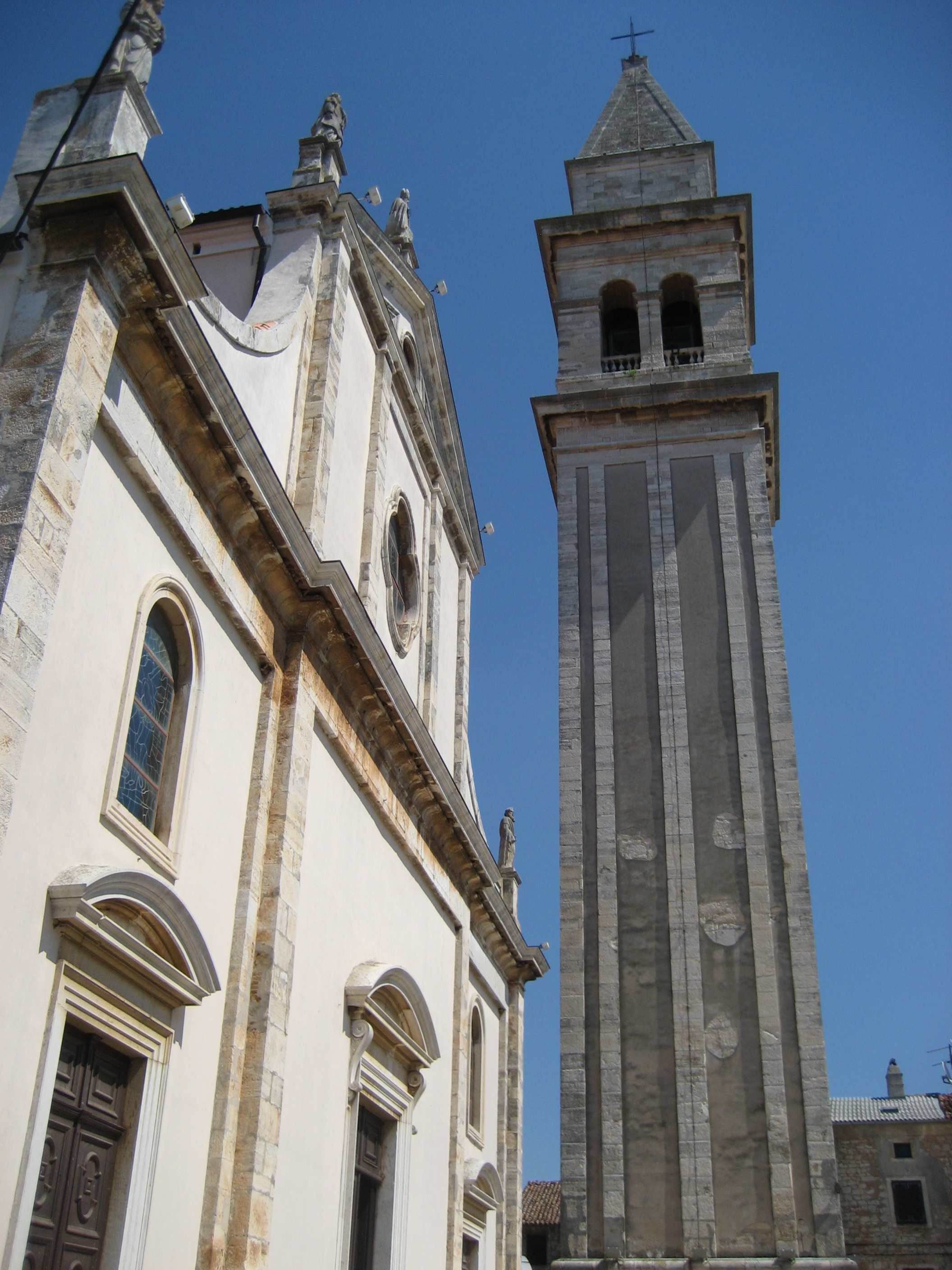 Church of Vodnjan, Croatia